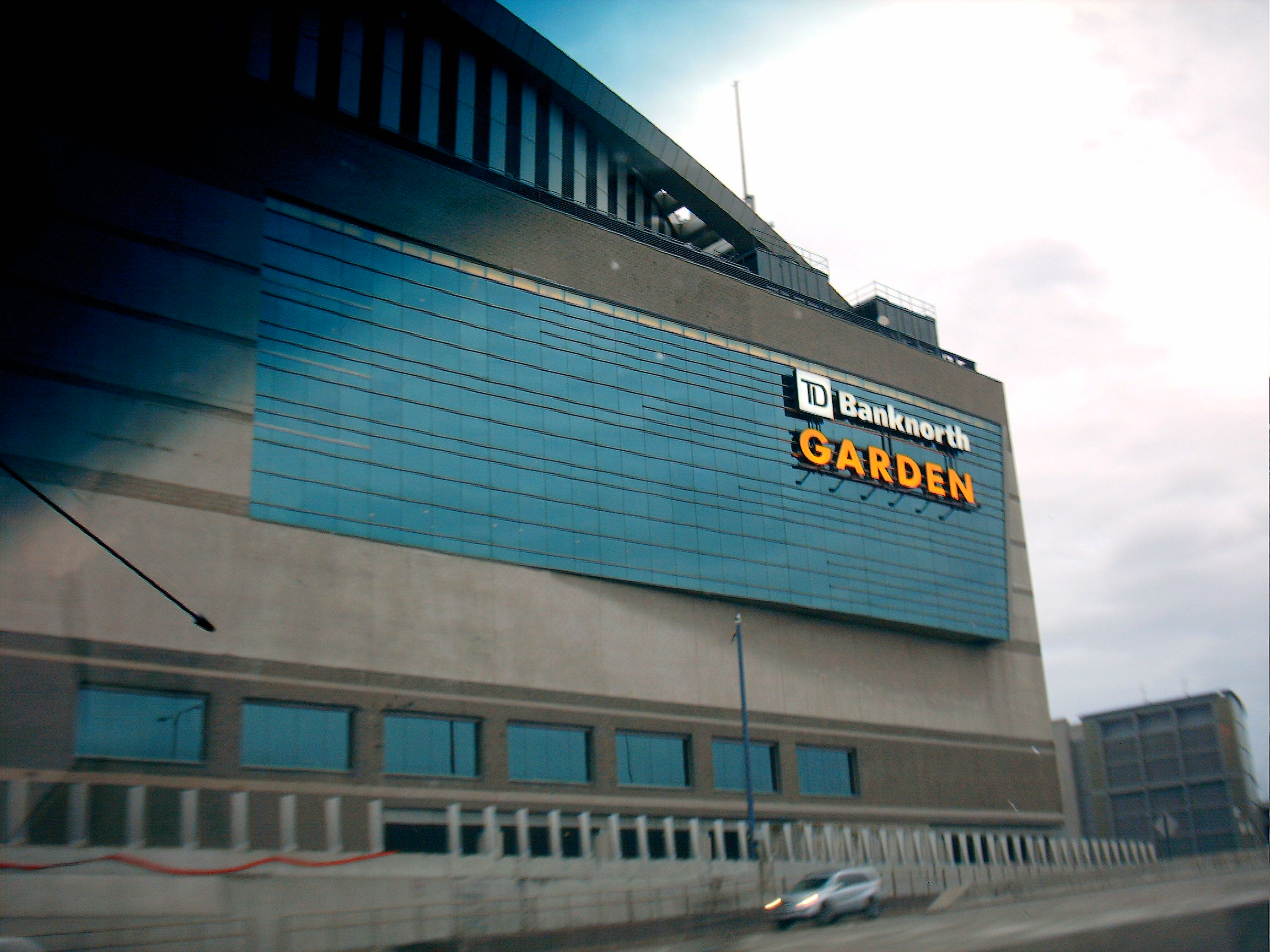 TD Garden (taken in car which is why there's the big black spot in the top left corner, which is the polarized part of the glass.)